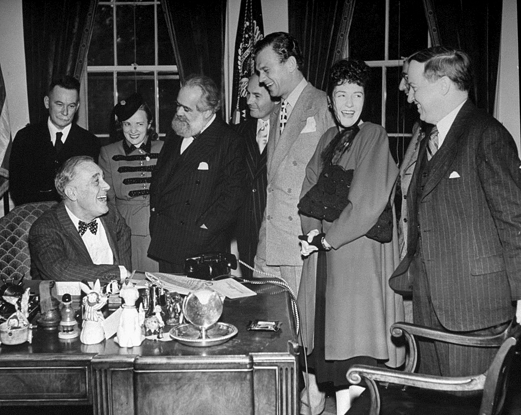 Photograph of Franklin D. Roosevelt with a group of supporters from the Independent Voters Committee of the Arts and Sciences for Roosevelt Feature titled "Campaign Fun" states that "In Washington an arts-and-sciences group supporting Roosevelt had a good laugh with the President over some incidental byplay". Caption reads as follows:Chortling with the President are from left: Van Wyck Brooks, Hannah Dorner, Jo Davidson, Jan Kiepura, Joseph Cotten, Dorothy Gish and Dr. Harlow Shapley